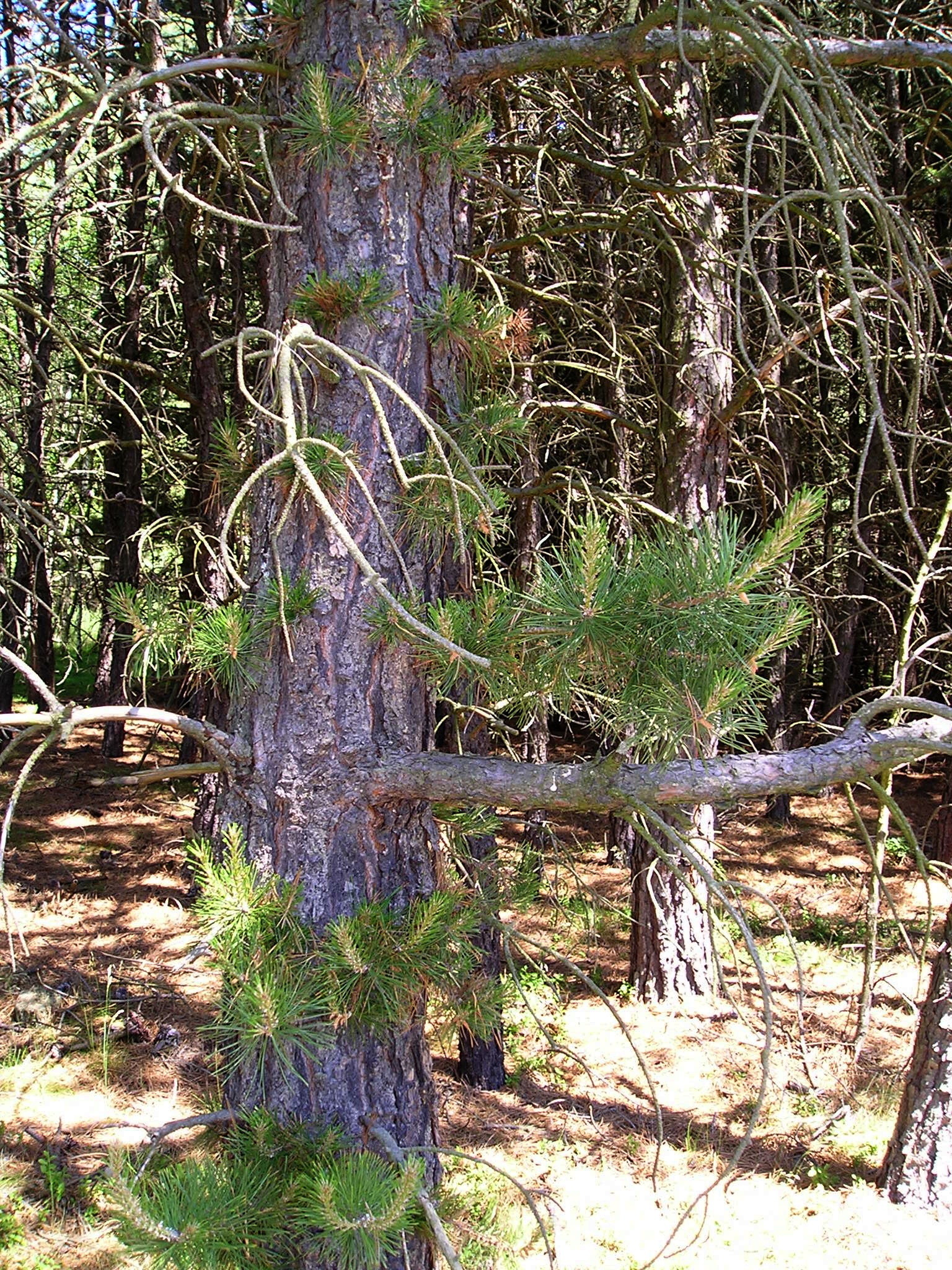 kmen borovice tuhe [Pinus rigida]